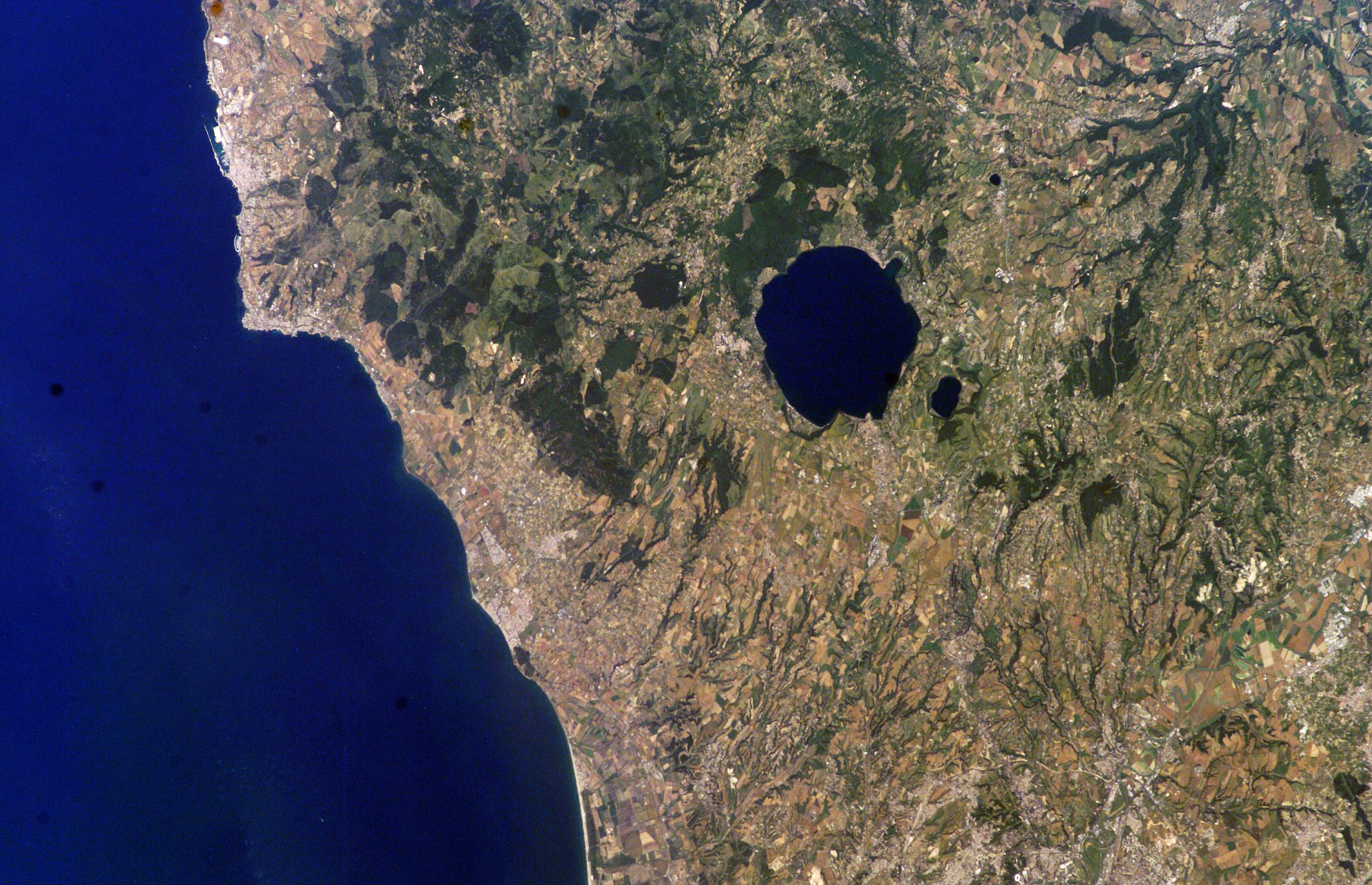 A space view by the Shuttle from the Lazio region in Italy. The large dark round structure is Lake Bracciano, the central part of the Sabatini volcanic province.